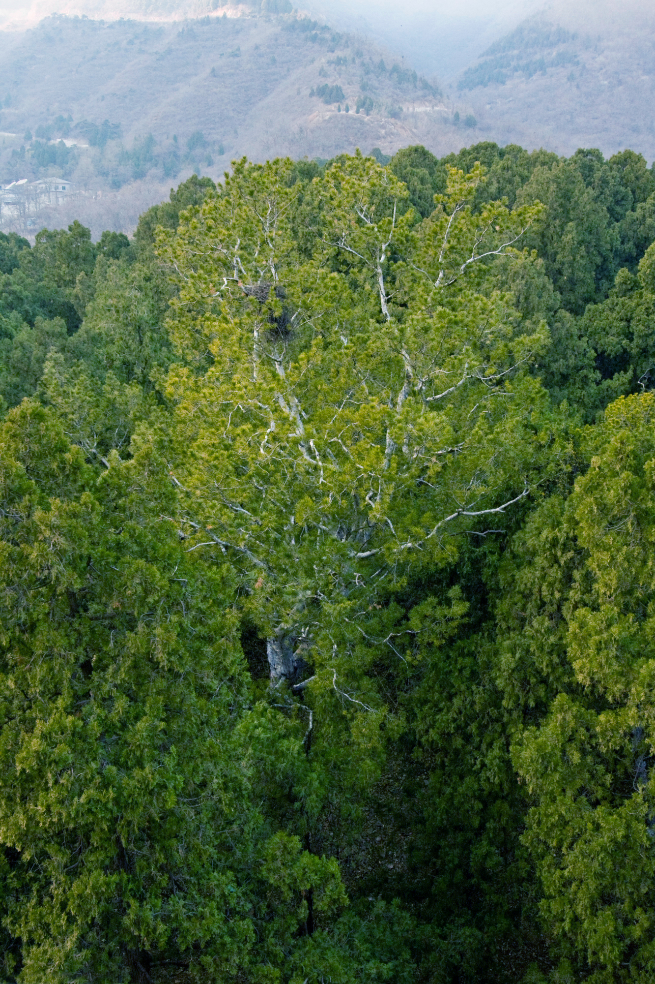 Pinus bungeana (centre, with white bark) among Platycladus orientalis. Fragrant Hills, Beijing.